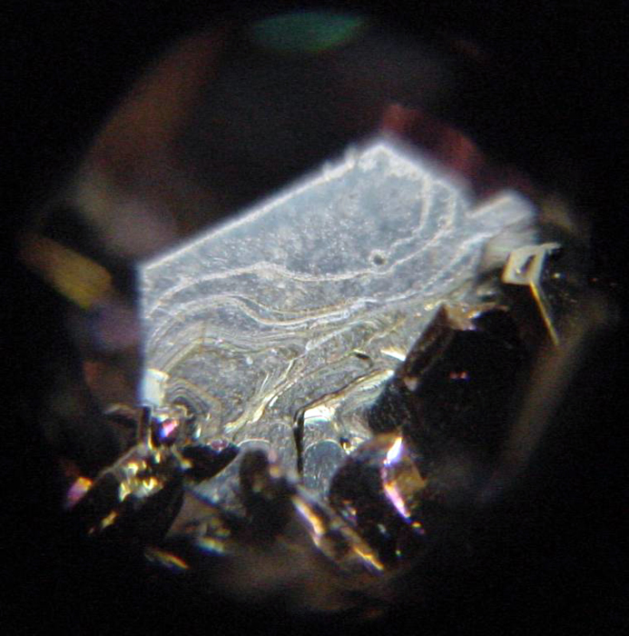 Moissanite (SiC), 14x magnification, Mineral collection of Brigham Young University Department of Geology, Provo, Utah.